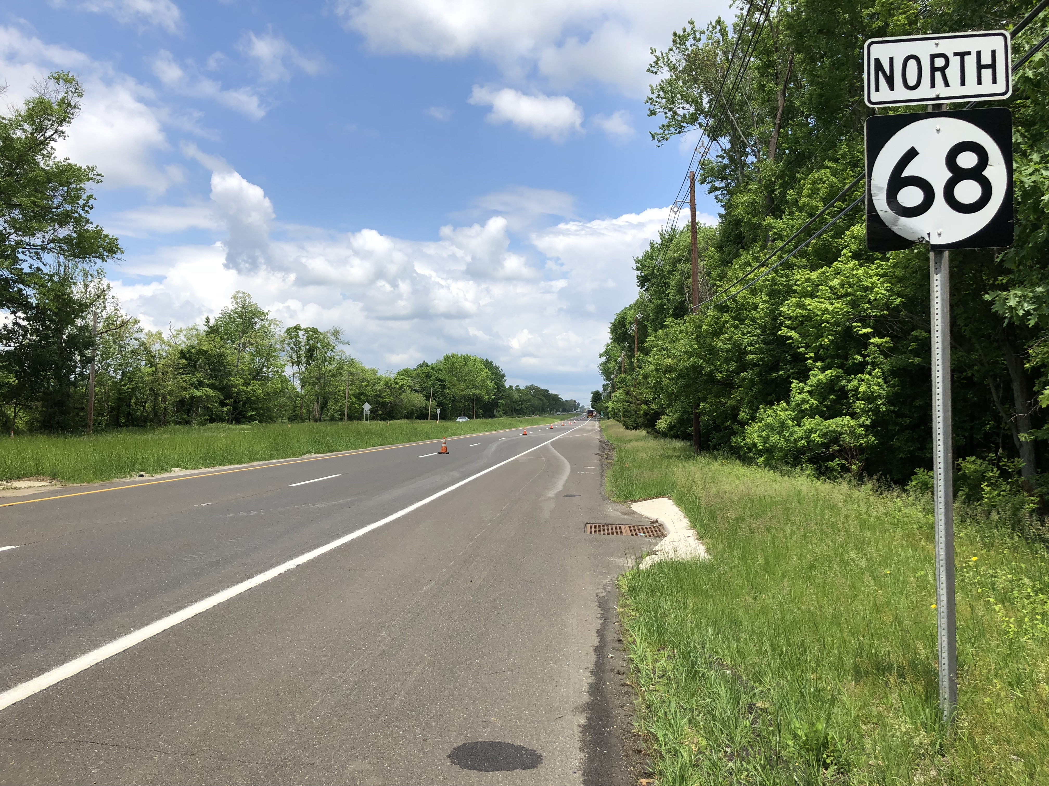 View north along New Jersey State Route 68 at Burlington County Route 543 (School House Road) in Mansfield Township, Burlington County, New Jersey